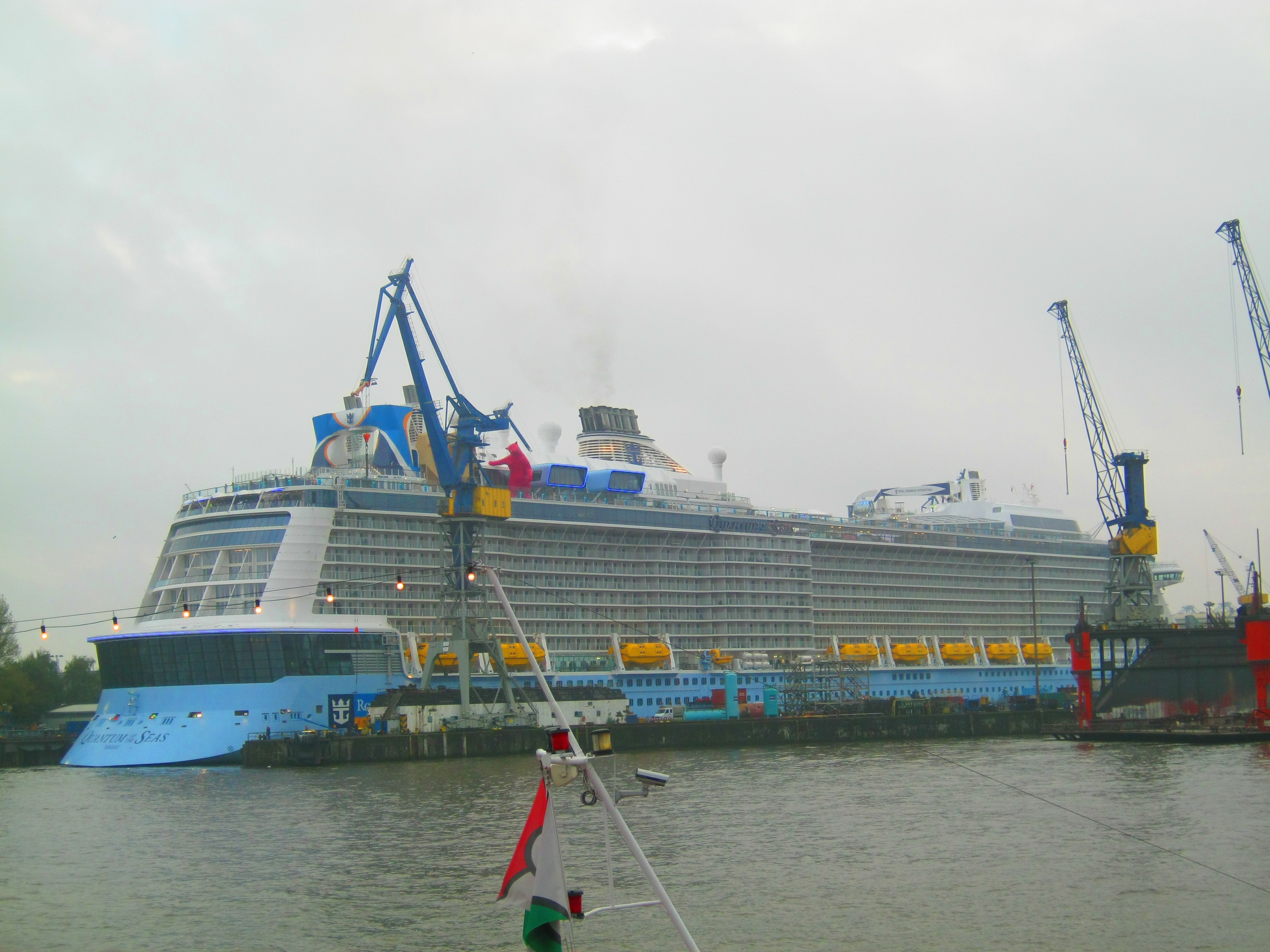 The new cruise-ship "MS Quantum of the Seas" in Dock 17 of the shipyard Blohm + Voss in Hamburg.